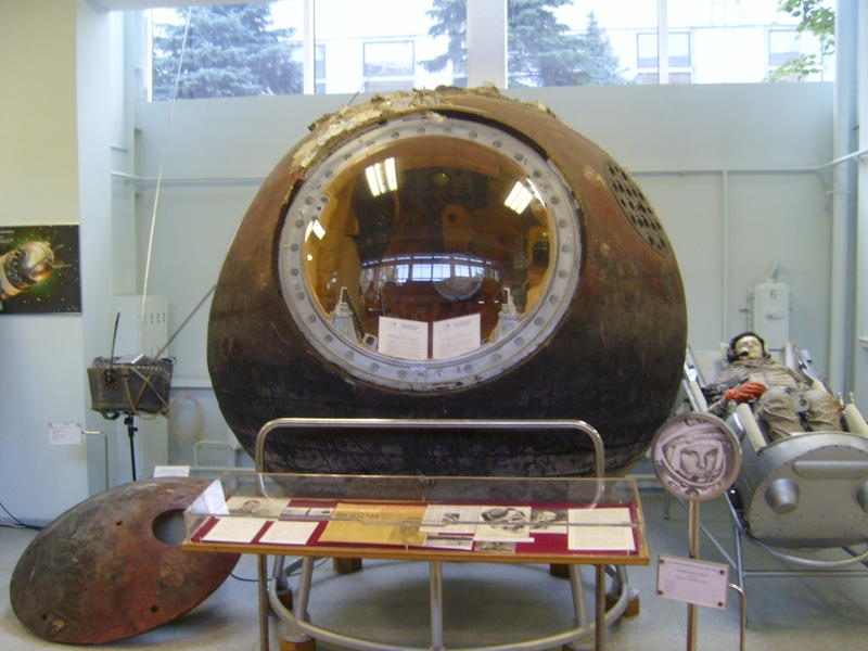 Vostok I capsule used by Yuri Gagarin in first space flight. Now on display at the RKK Energiya Museum outside of Moscow.